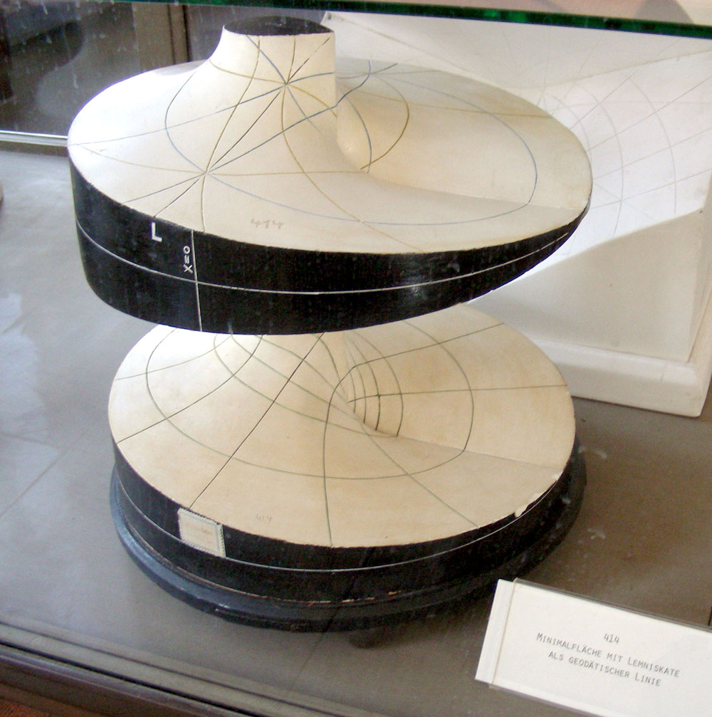 Model in the collection of mathematical models and instruments, Georg-August-Universität Göttingen Göttingen. see also for more information on the models